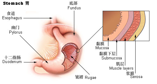 Illu stomach2.jpg in Chinese